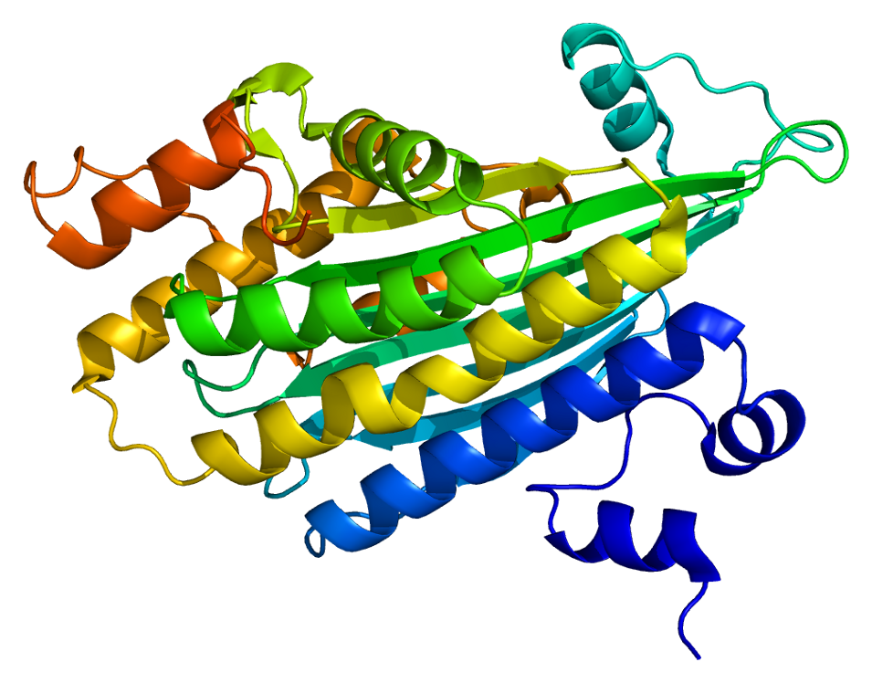 Structure of the CPOX protein. Based on PyMOL rendering of PDB 2aex.